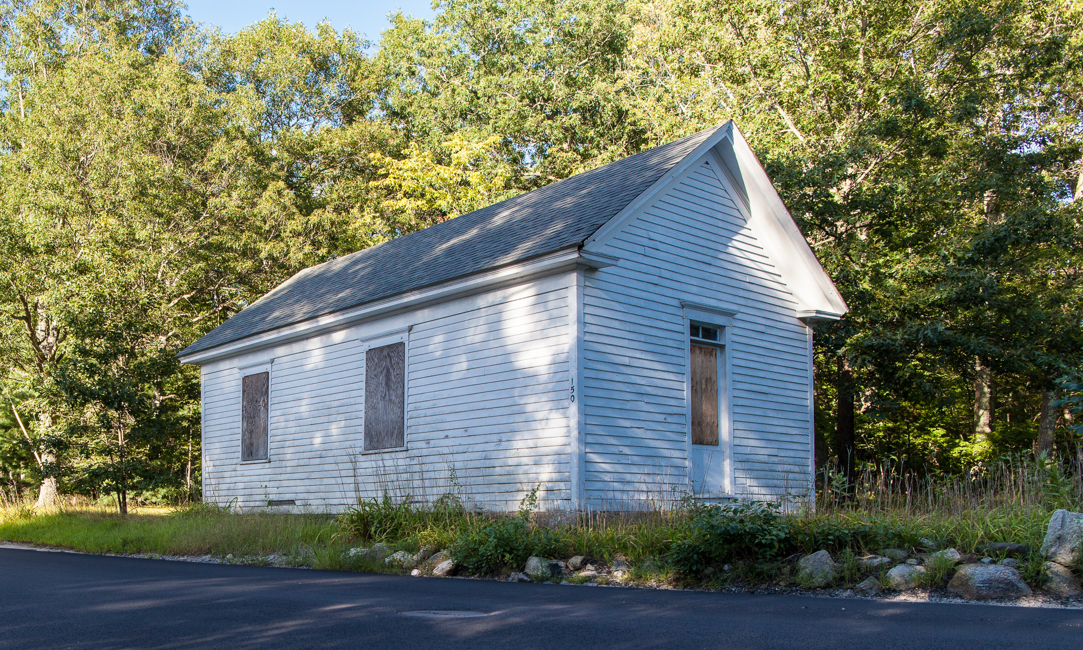 Pullen Corner School, Angell and Whipple Lincoln